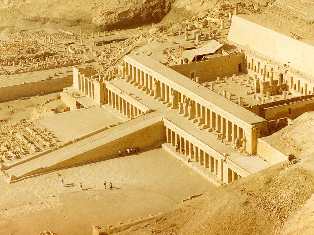 Deir el-Bahari with temples of Hatshepsut, Thutmosis III and Mentuhotep II, Luxor, Egypt